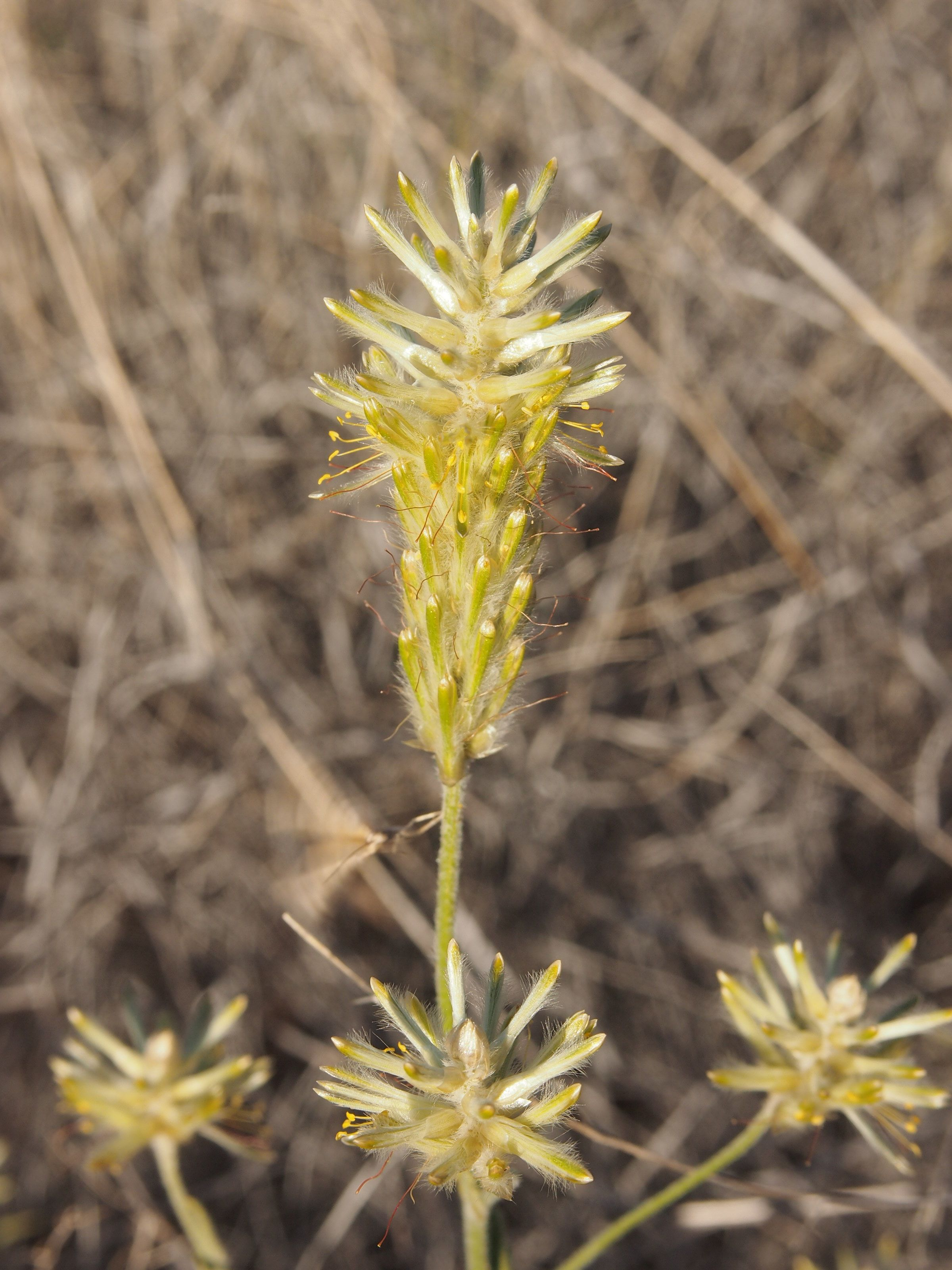 Ptilotus polystachyus flowers